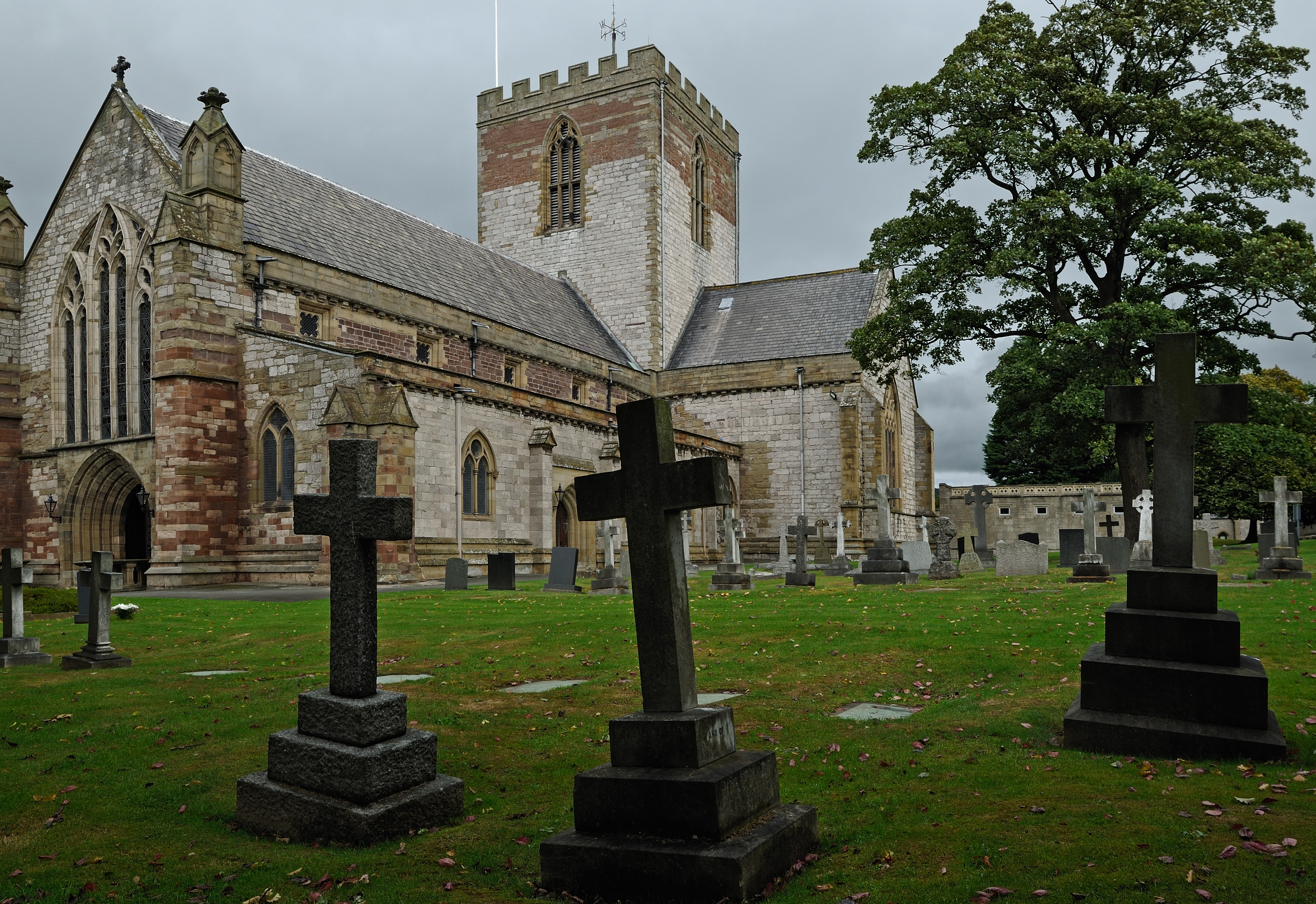 Burial place near St. Asaph Cathedral. Wales, United Kingdom